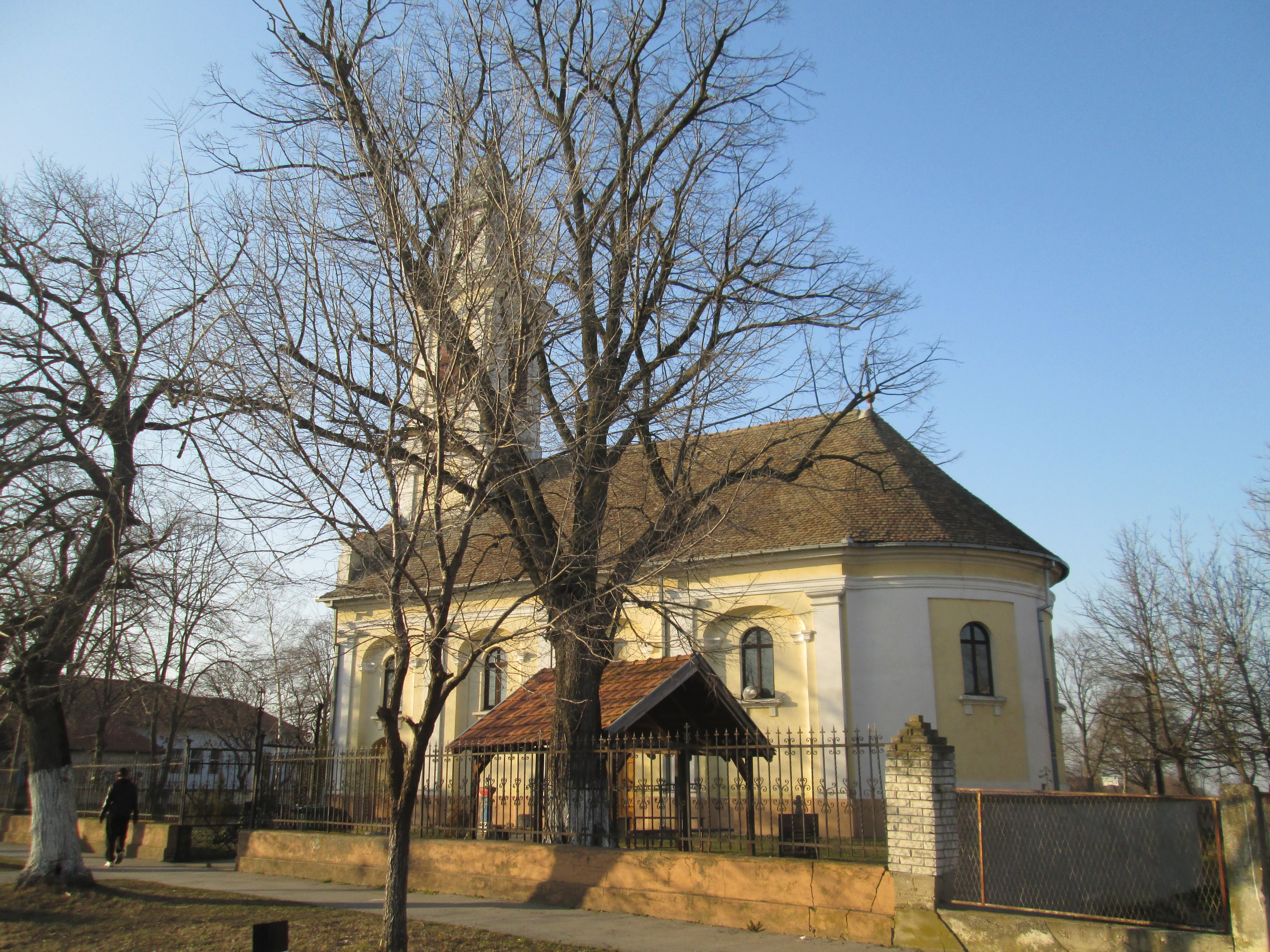 St. John church in Petrovčić Српски (ћирилица): Црква Св. Јована у Петровчићу